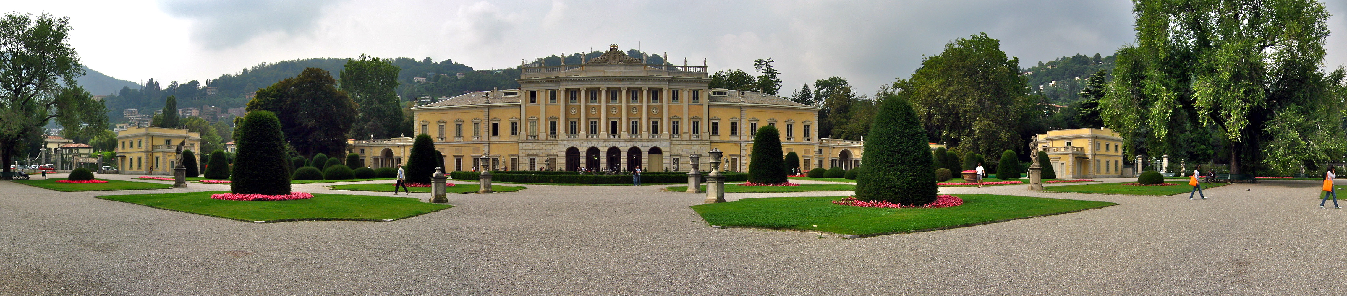 panoramic photo of Villa Olmo Como italy